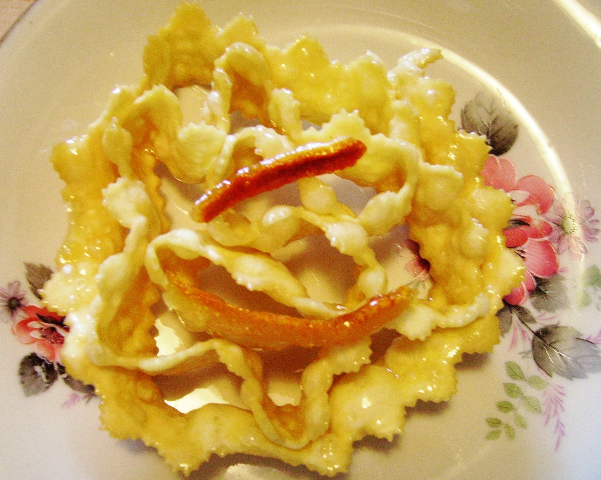 Orilleta, a sardinian cake.